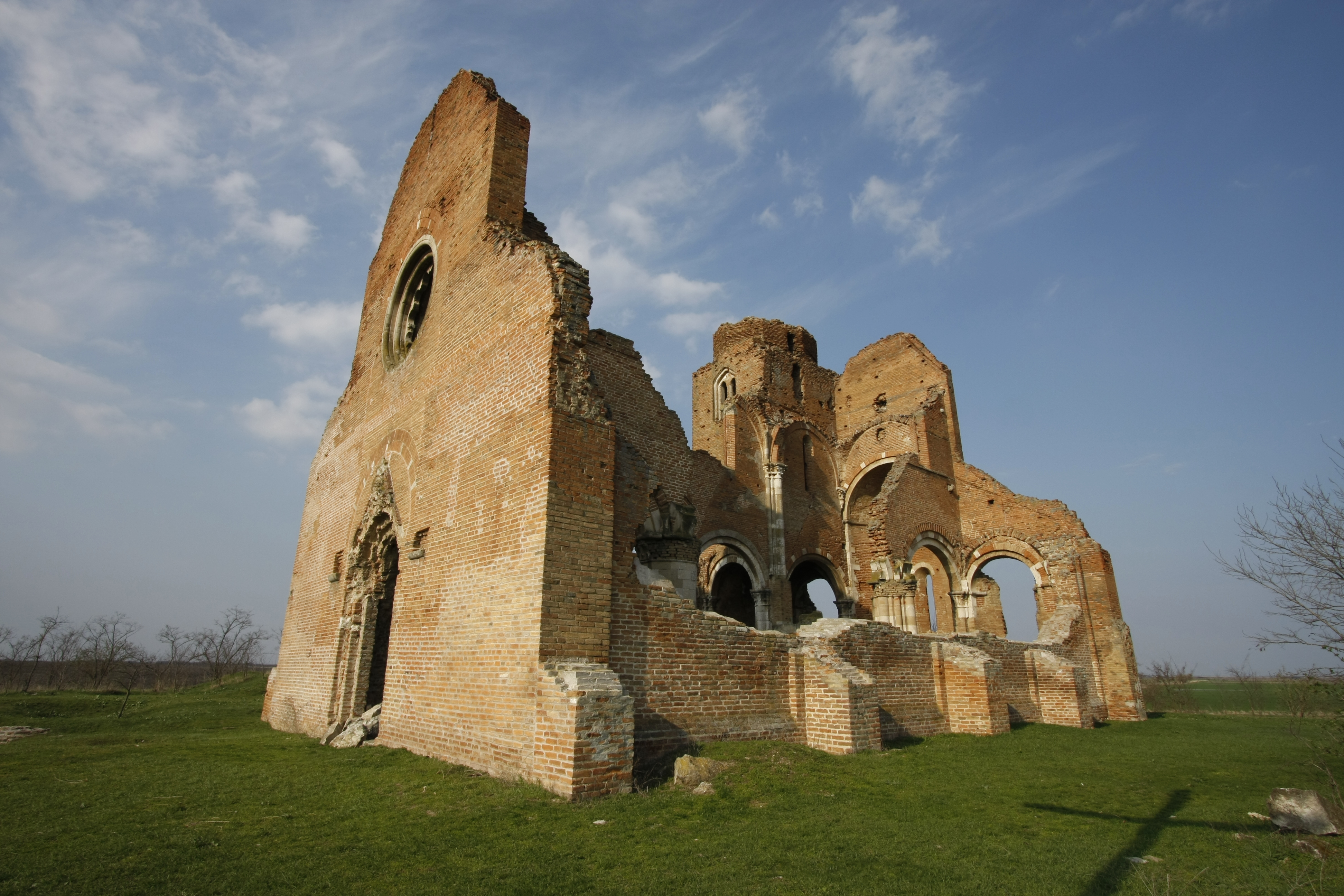 Ruins of the medieval Catholic church of Arač (Aracs) near Novi Bečej, 13th century.